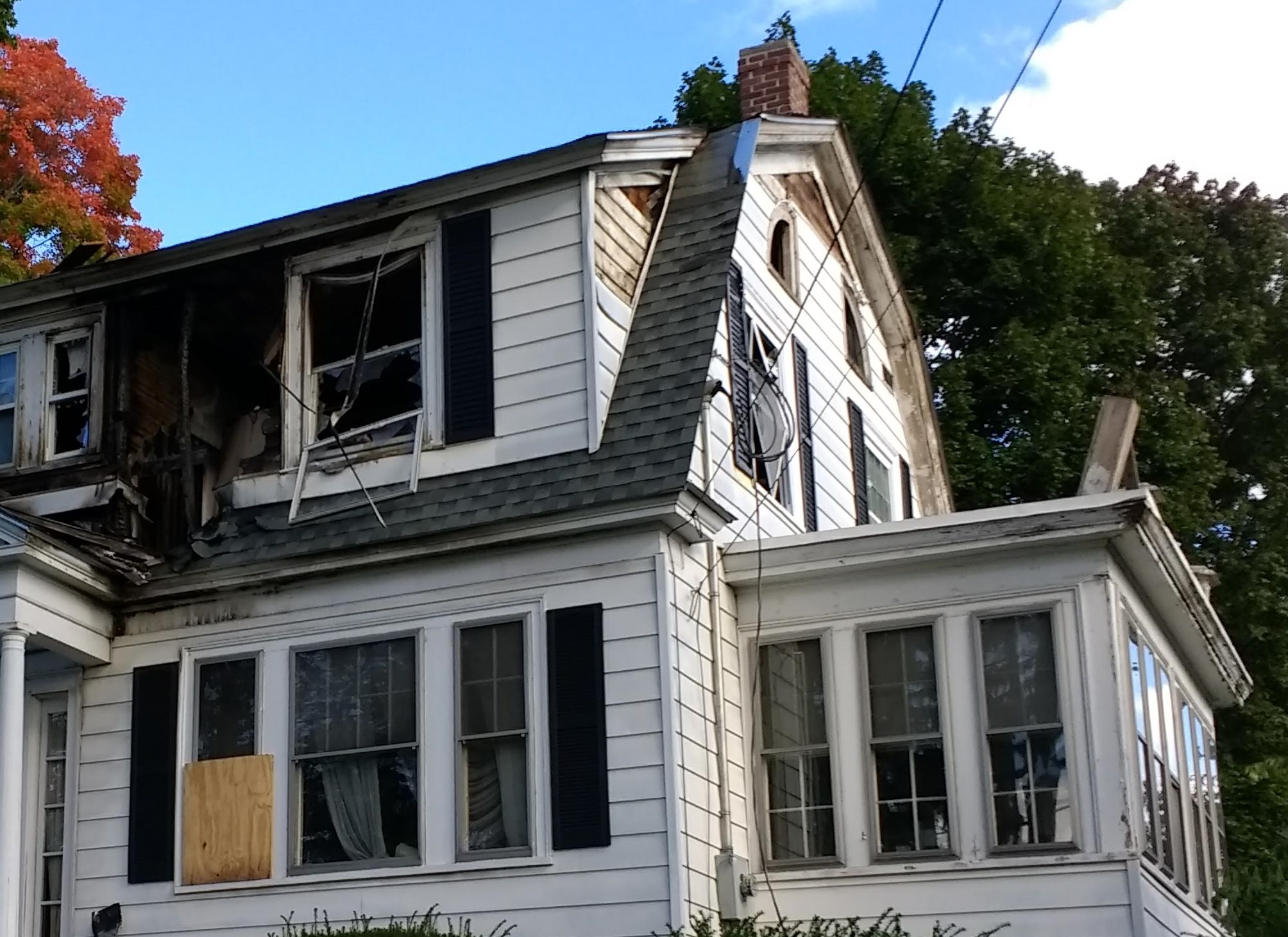 The damage done to a home in North Andover due to gas explosion on September 13, 2018.